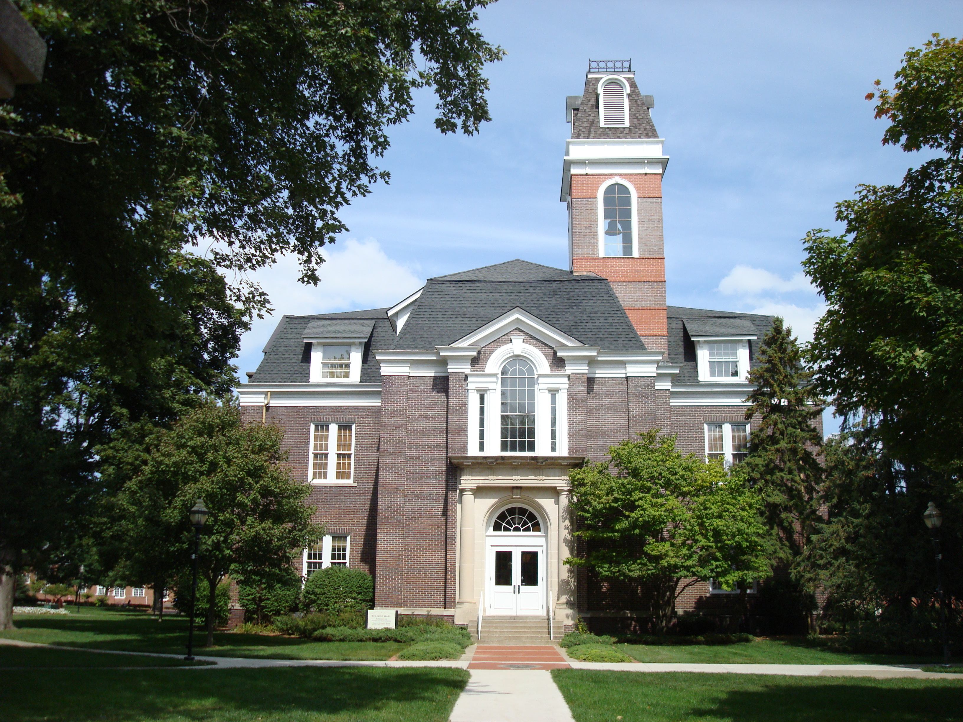 College Hall (formerly Old Chapel) located on the Simpson College campus in Indianola, Iowa.